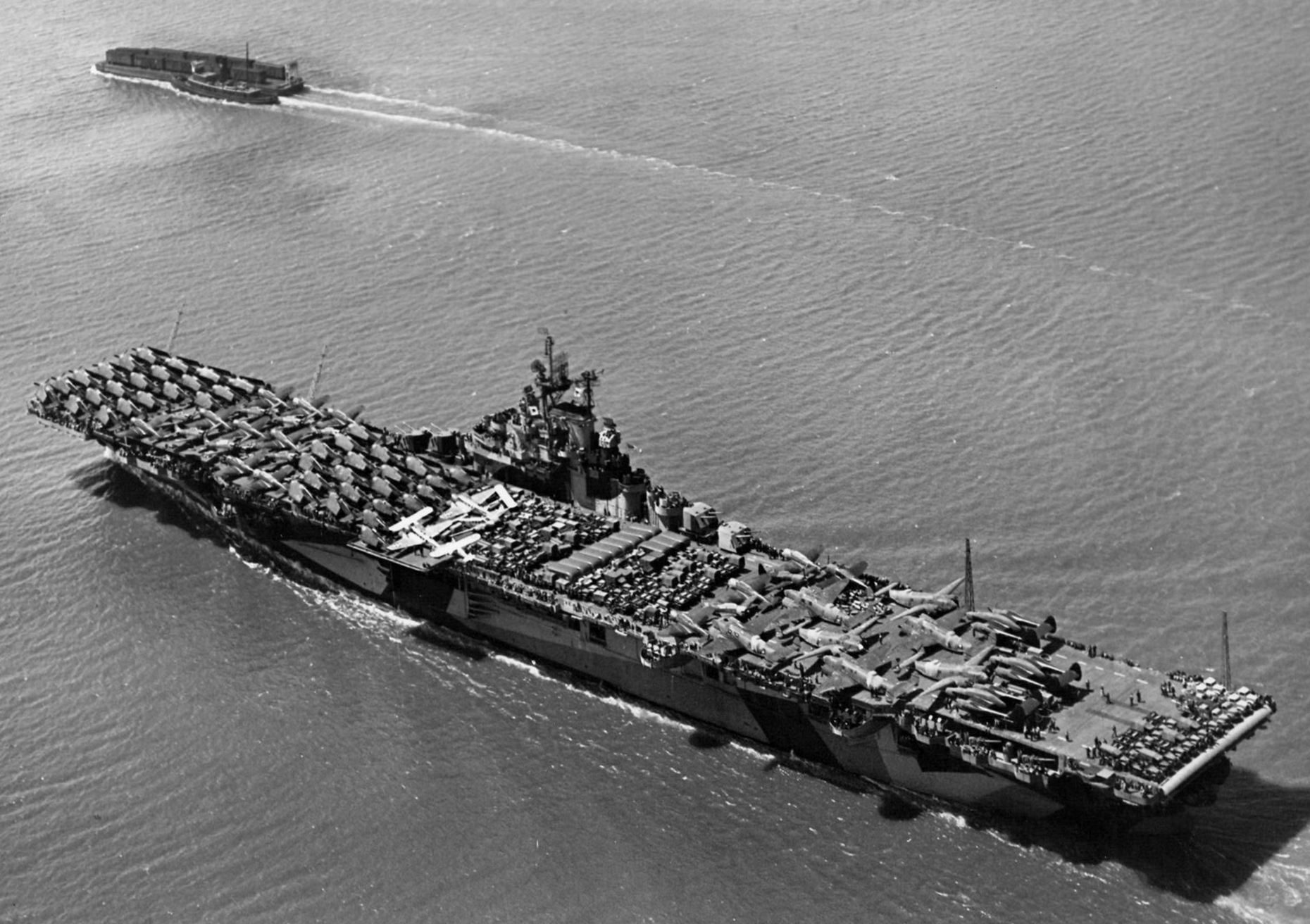 The U.S. Navy aircraft carrier USS Intrepid (CV-11) pictured underway off the Naval Shipyard Hunters Point near San Francisco, California (USA) on 9 June 1944. Her deck is packed with planes for transport to the Pacific Theater.